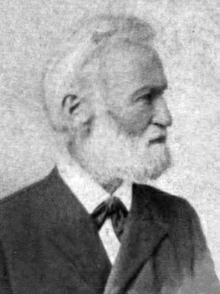 Jacob Mueller was a German immigrant living in Cleveland, Ohio. Publication in 1905.